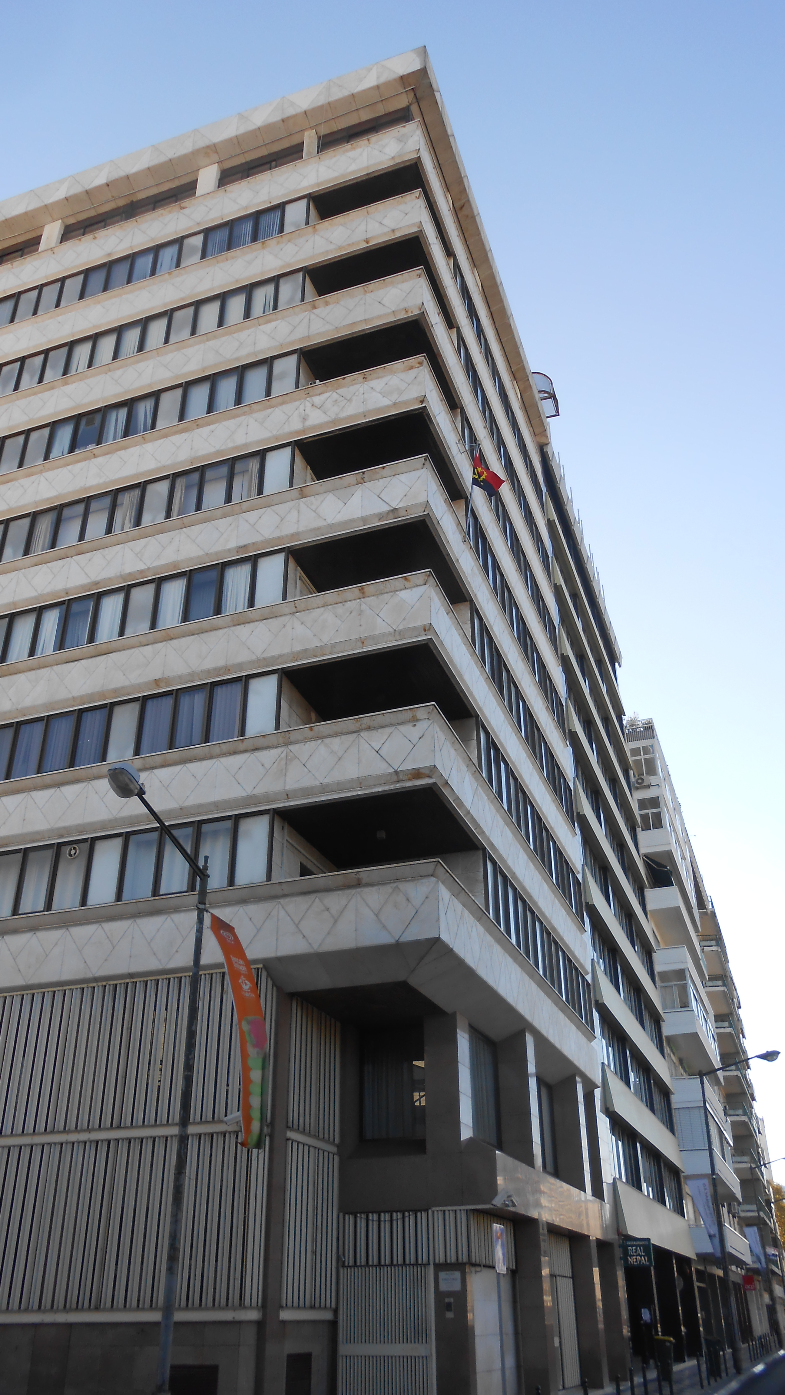 The embassy of Angola in the Avenida da República in Lisbon.